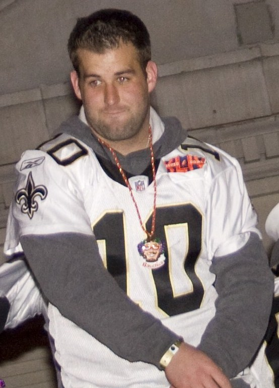 New Orleans Saints Super Bowl Victory Parade on Canal Street. L-R: (#9) Drew Brees, (#10) backup QB to Brees, Chase Daniel, (#78) Jon Stinchcomb